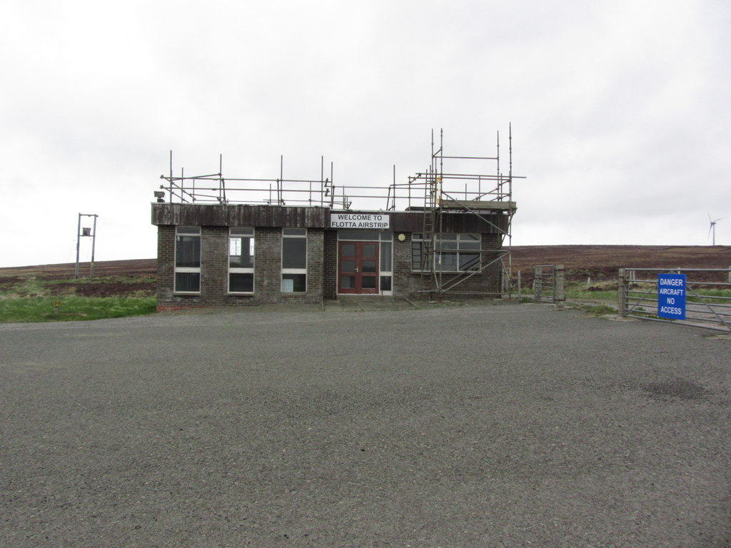 Flotta; Airstrip terminal